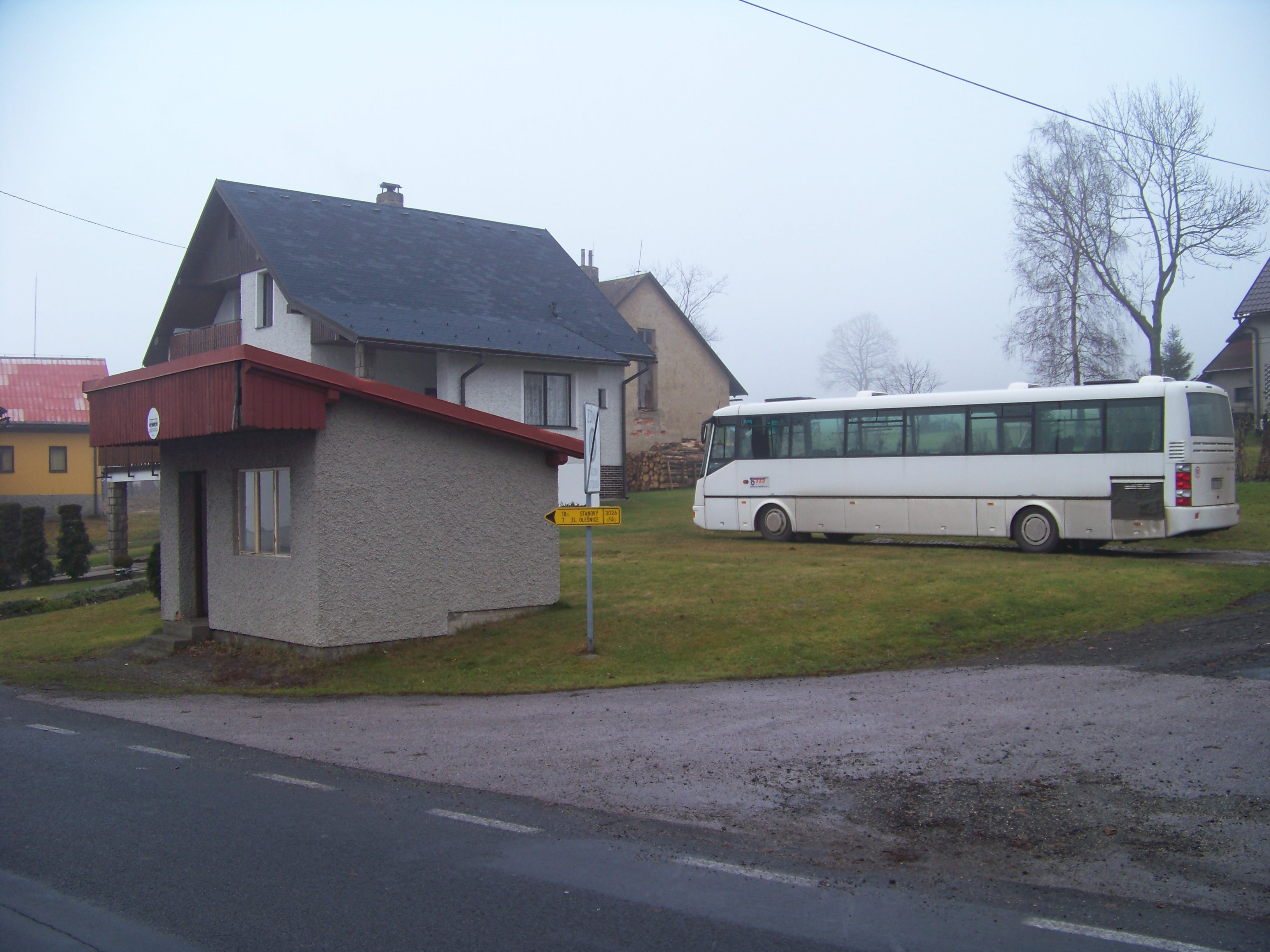 Kořenov-Příchovice, Jablonec nad Nisou District, Liberec Region, the Czech Republic.